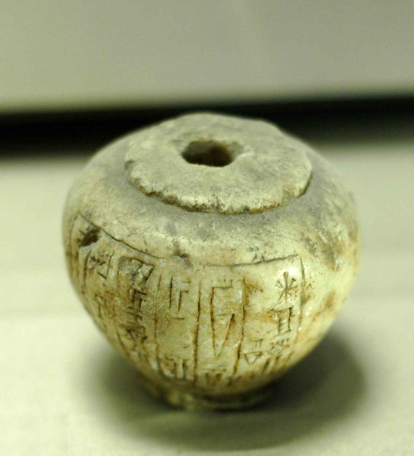 Mace dedicated to the hero Gilgamesh (fifth king of Uruk, according to the Sumerian king list) by Urdun, civil servant of Lagash, Ur III.